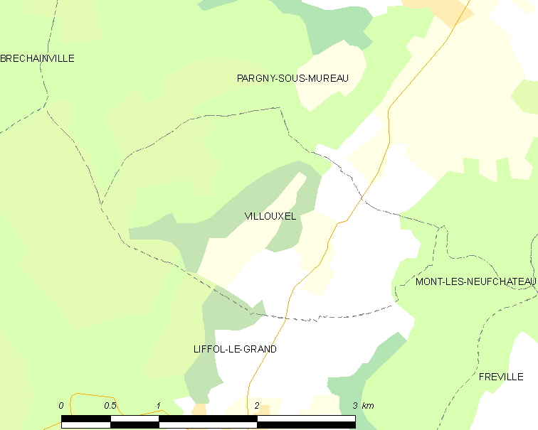 Map of French municipality Villouxel